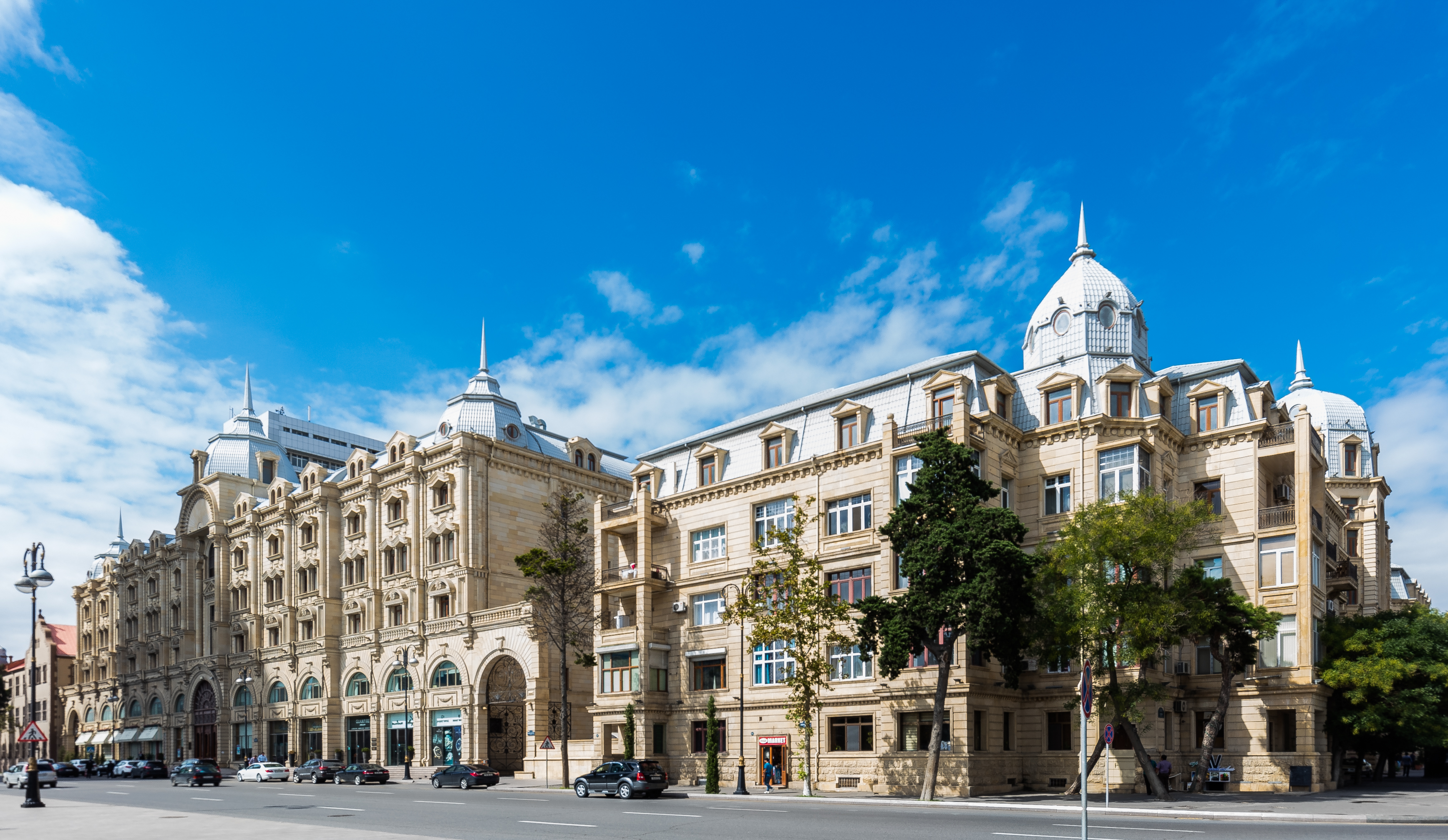 Building in Baku, Azerbaijan